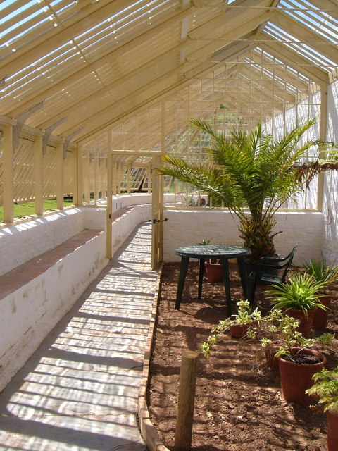 Vinery, Greenway House. The vinery was built in the 1830s, and has just been restored. It still needs a further coat of paint, hence the mobile nature of the plants. Taken through an open window at the eastern end, although you can walk through.